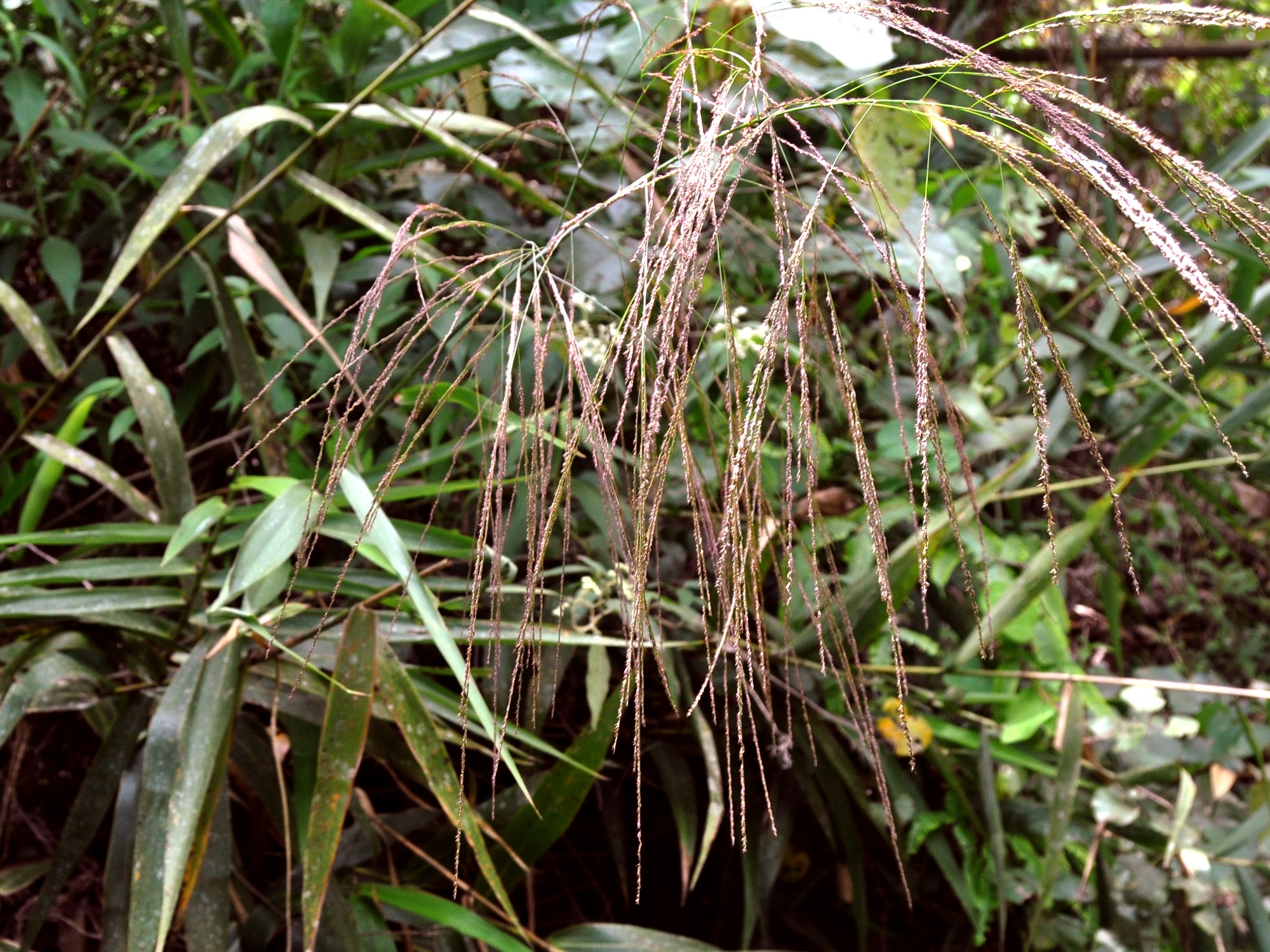 Thysanolaena latifolia, panicles. From Simalungun, North Sumatra, Indonesia.